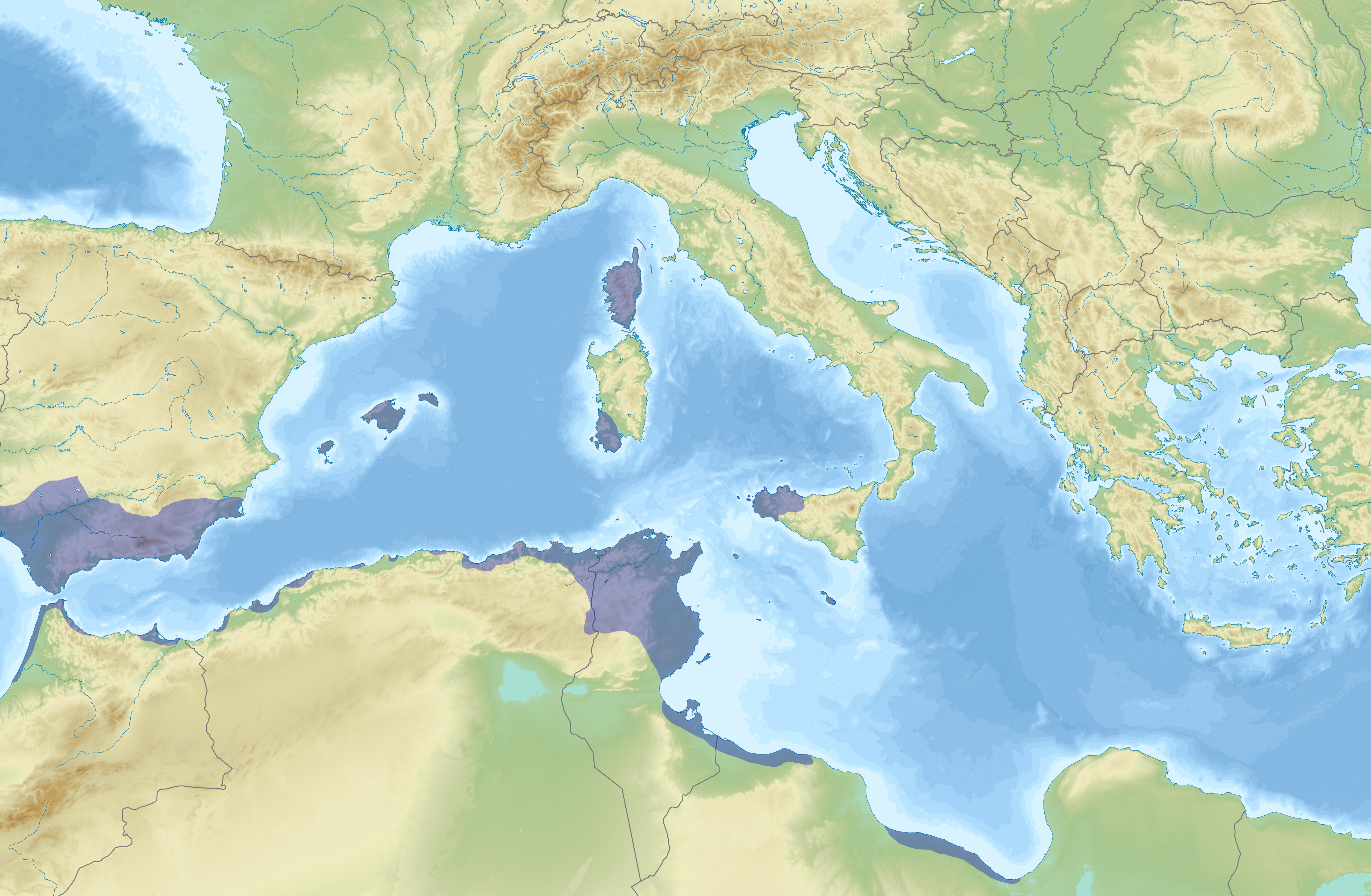 Map of Carthage and its vassals in 264.